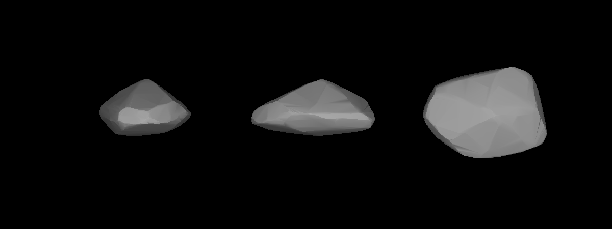 A three-dimensional model of 512 Taurinensis that was computed using light curve inversion techniques.